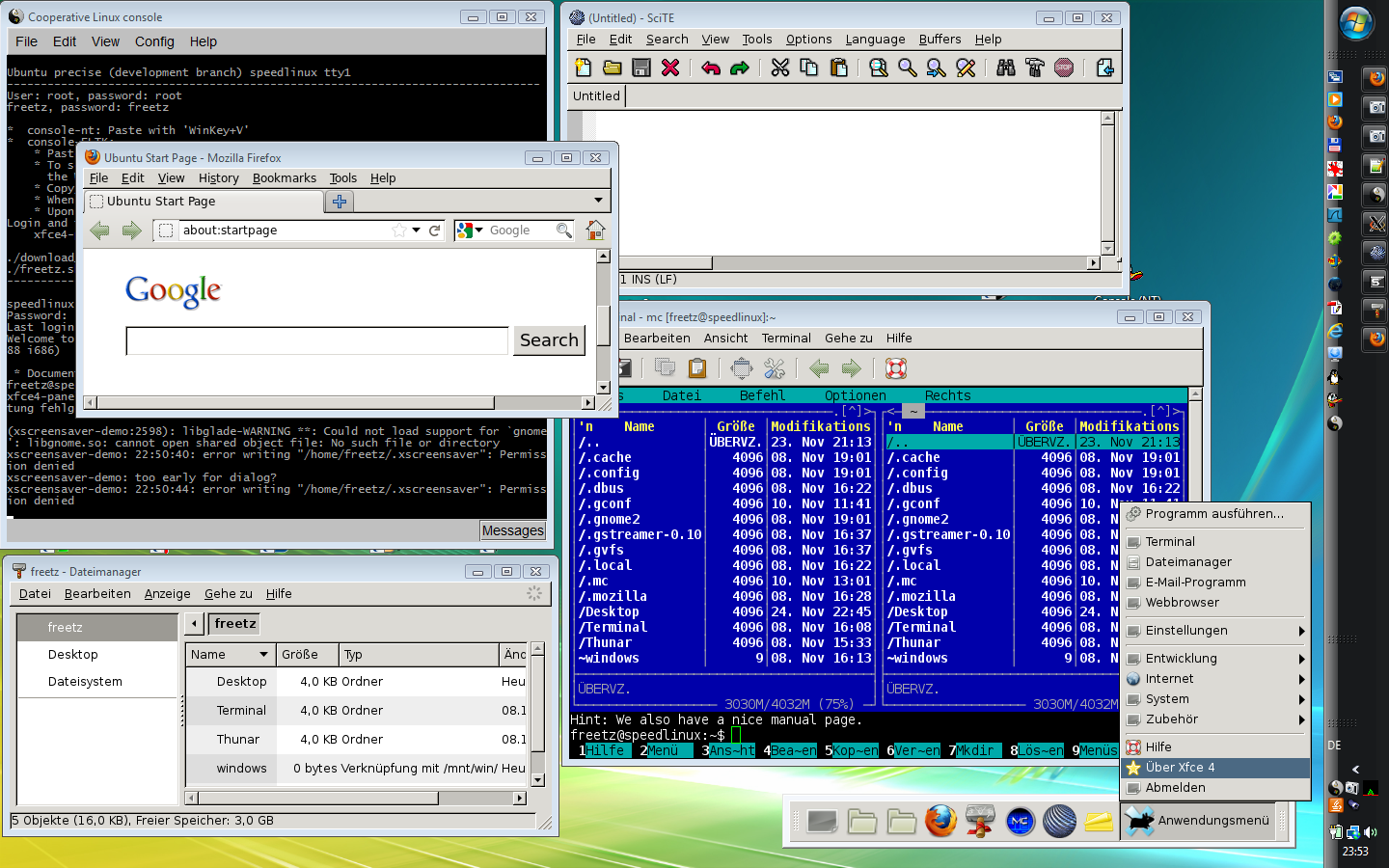 SpeedLinux started. Is a Ubuntu 12.04 precise Develop version in combination with coLinux as Kernel, running side on side with Windows Vista 32 Bit.